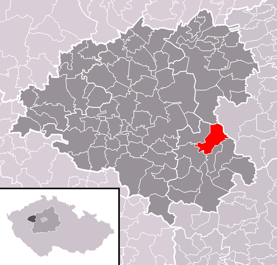 Location of Městečko municipality within Rakovník District and (identical) administrative area of Rakovník as a Municipality with Extended Competence.